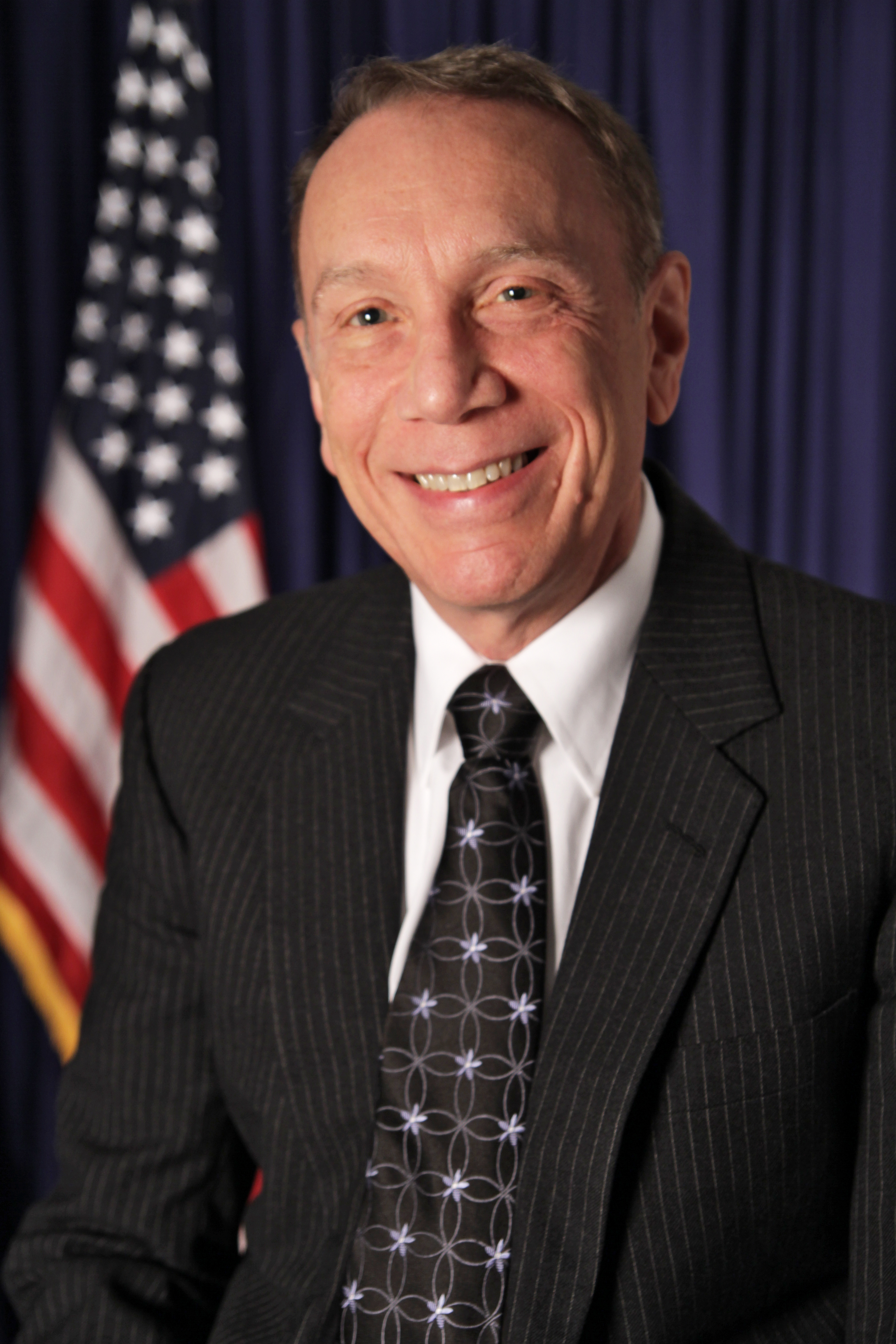 Portrait of Victor Basile, US Government/OPM. Retrieved from a link at